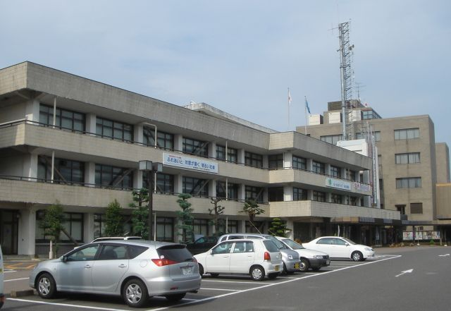 Minokamo City Hall in Gifu Preferture, Japan